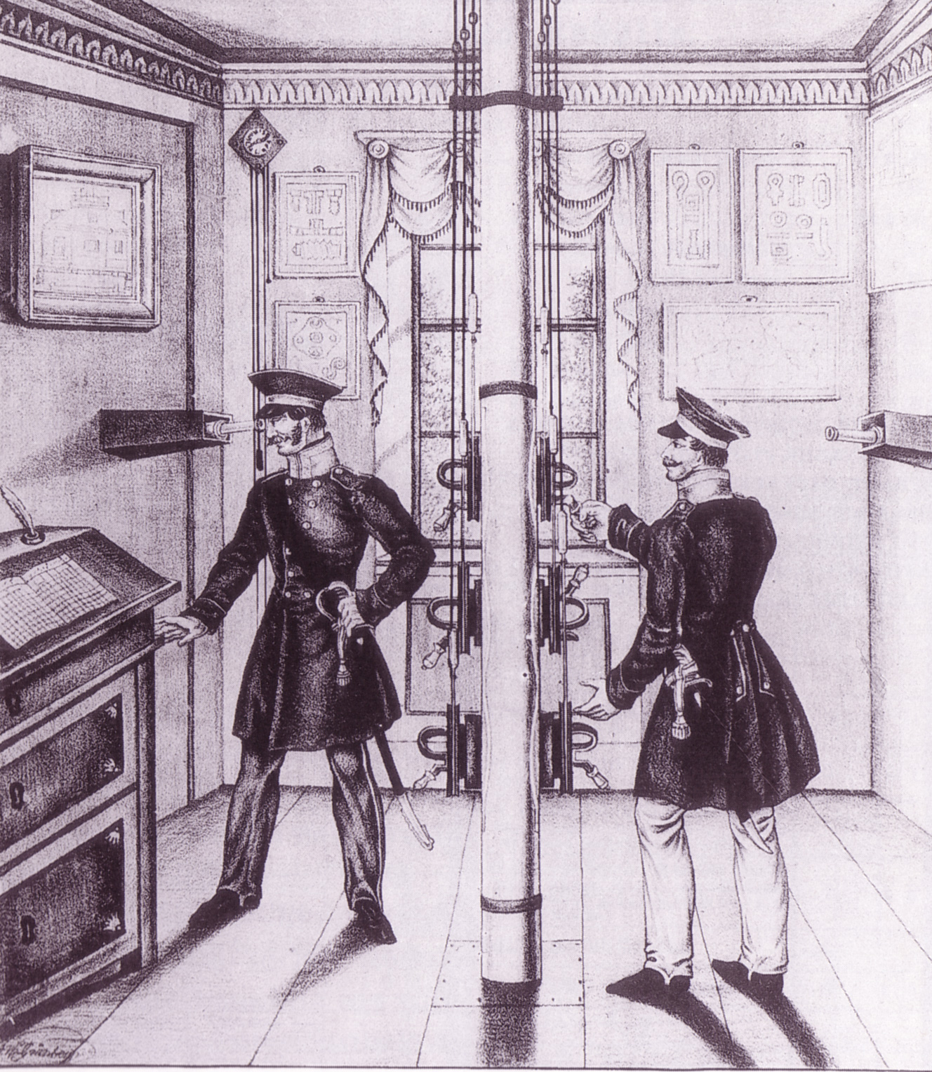 Telegraphists at work at the prussian optical telegraph, Engraving